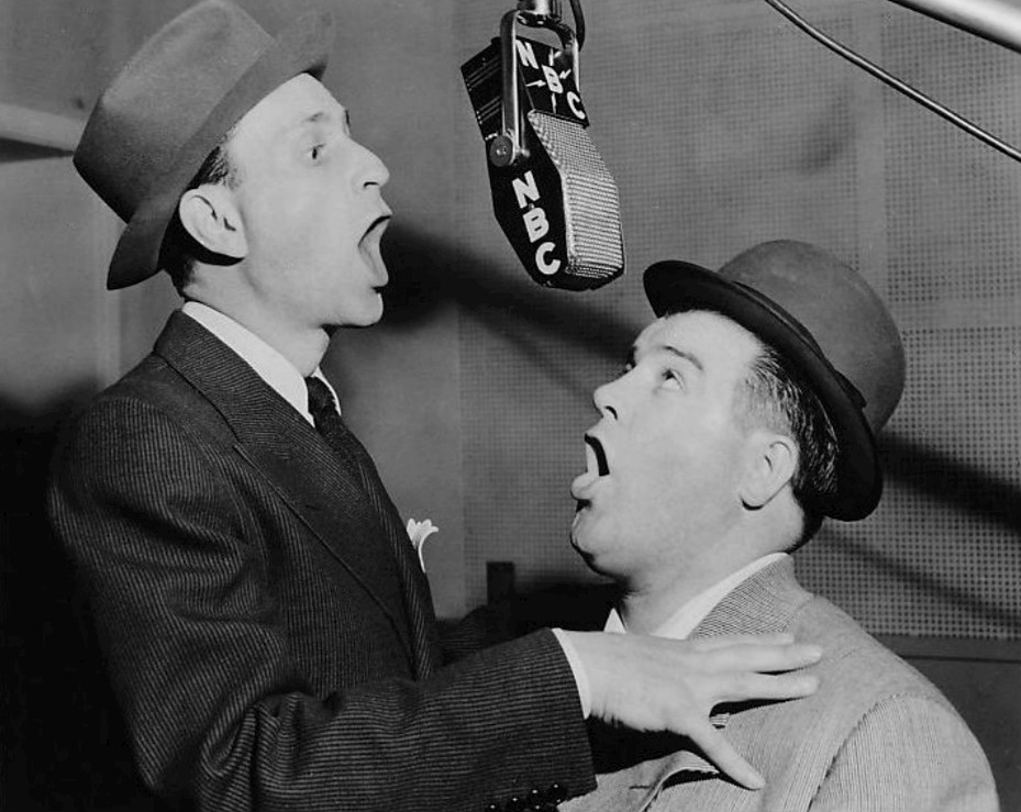 Photo of Bud Abbott and Lou Costello in the NBC radio studios.